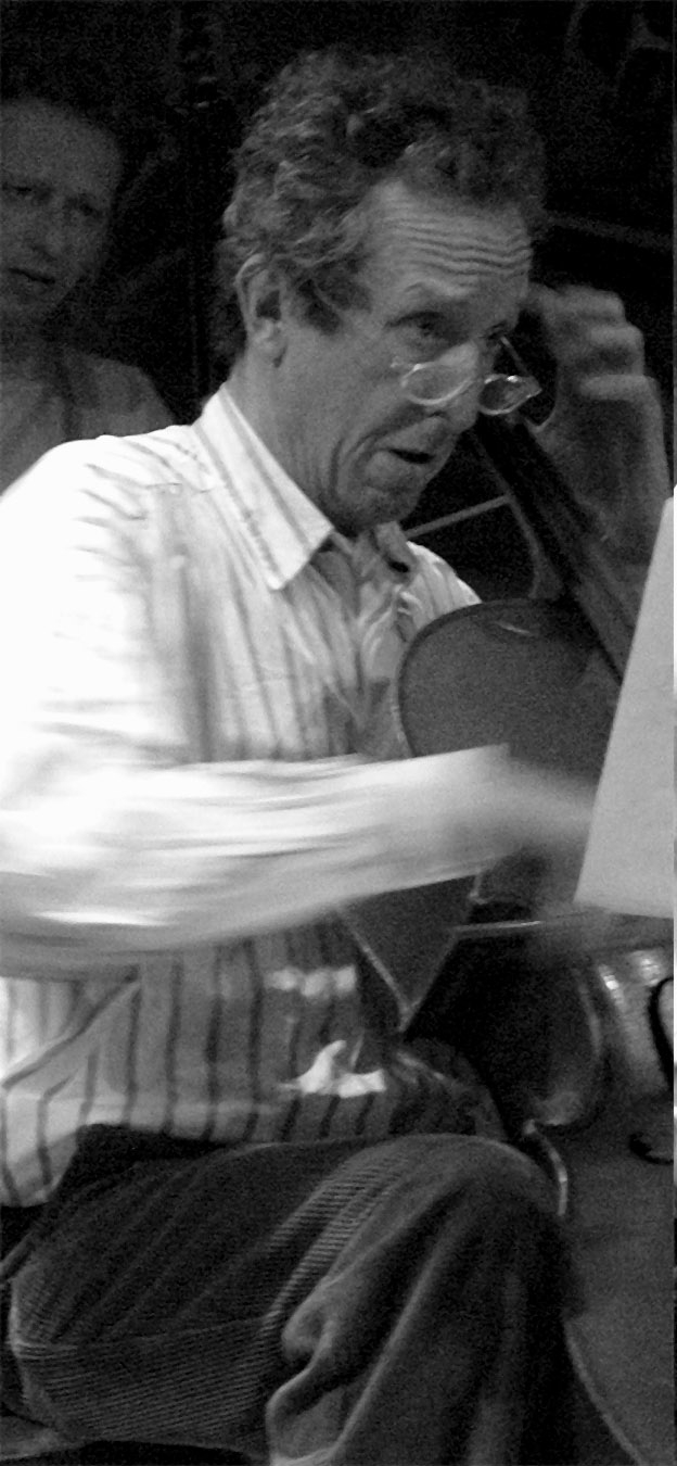 description: Tristan Honsinger photographer: Seth Tisue photographer_location: Boston, MA, USA photographer_url: [1] flickr_url: [2] taken:November 3, 2004